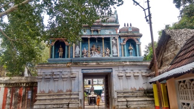 Nannilam maduvanesvarar temple நன்னிலம் மதுவனேஸ்வரர் கோயில்